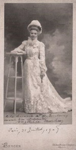 Mathilde Marchesi (born: Mathilde Graumann; March 24, 1821 – November 17, 1913) was a mezzo-soprano, teacher of singing, and exponent of the bel canto technique.